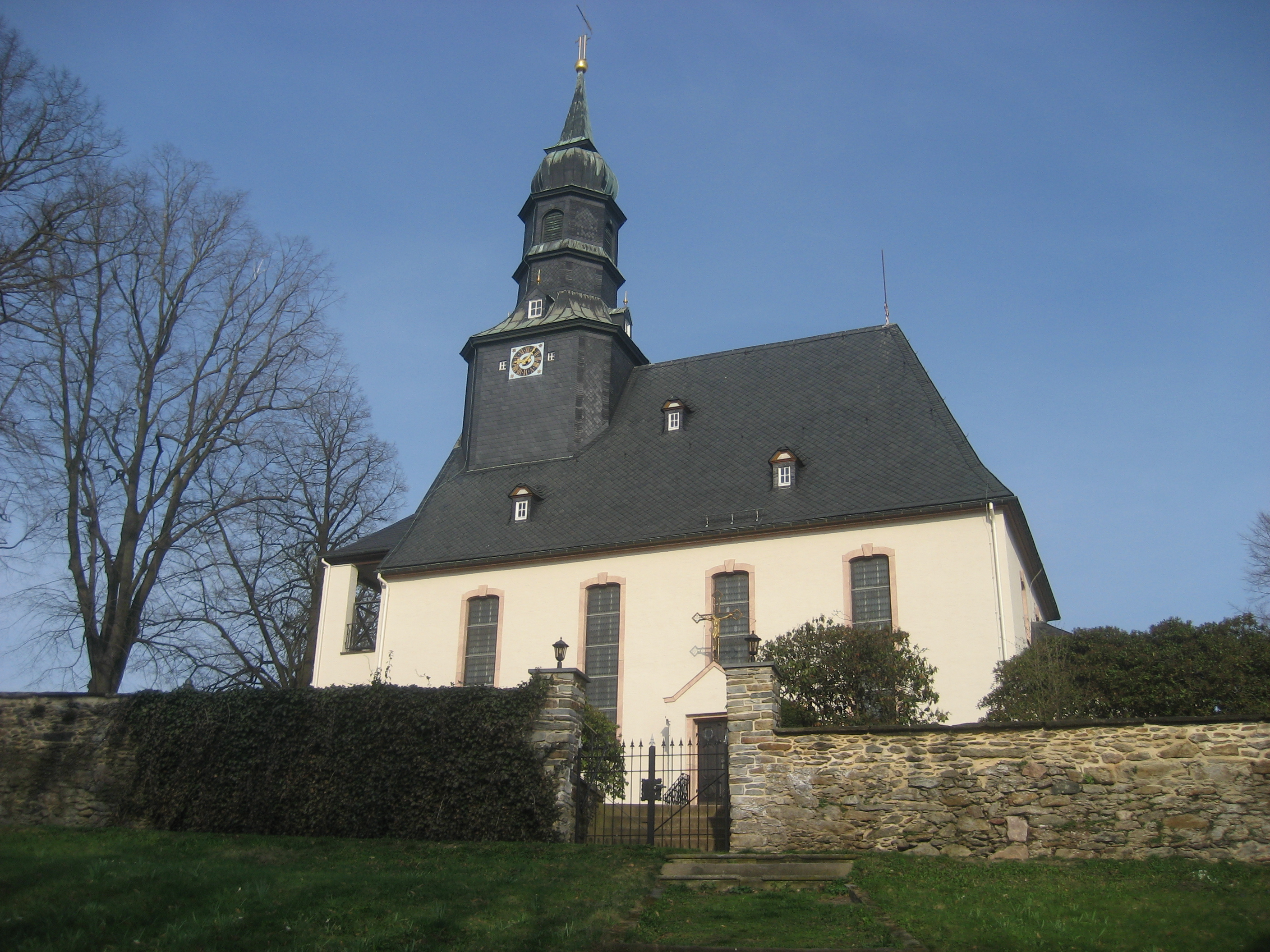 Church Pleißa (Limbach-Oberfrohna)